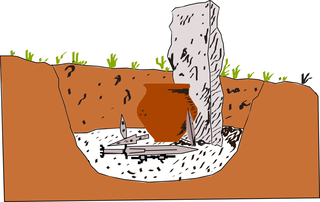 Ideal reconstruction of a tomb celtiberian.